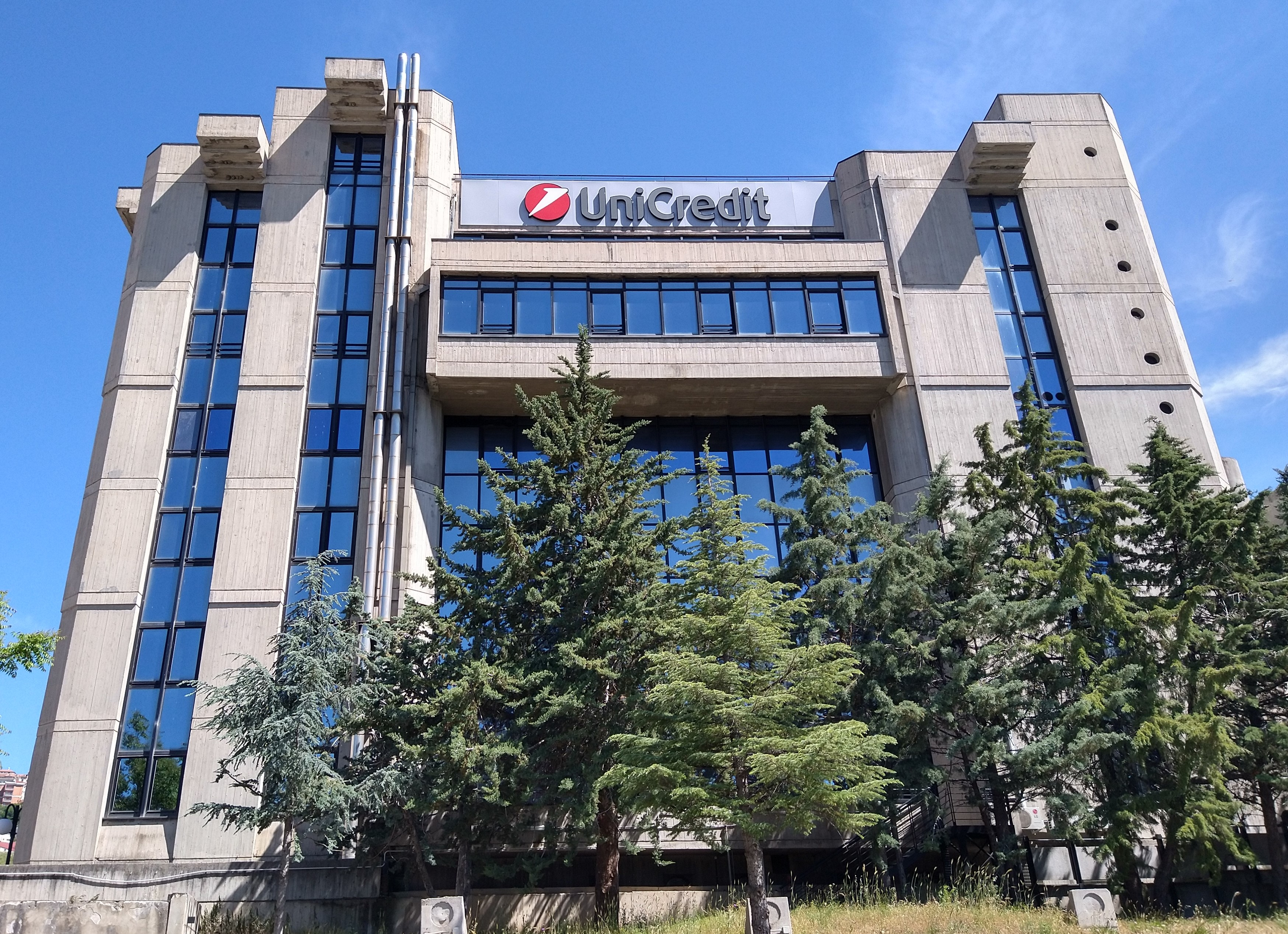 Front view of the Former Palace of Banca Popolare di Pescopagano in Potenza, Italy